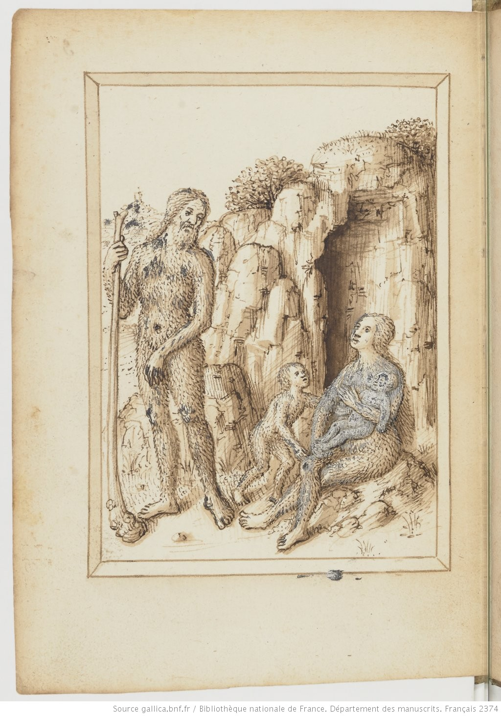 Dessin à l'encre d'une famille sauvage